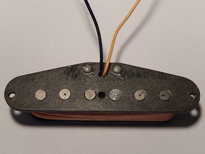 Fender Lead II X1 single coil fiber bobbin pickup